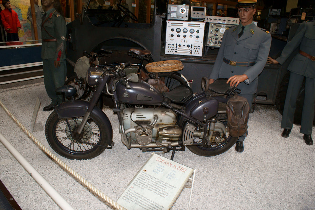 Swiss Army Condor A580 (1953); SONY DSC